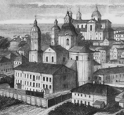 Non existent catholic church of St. Joseph and the Monastery of Jesuits in Viciebsk